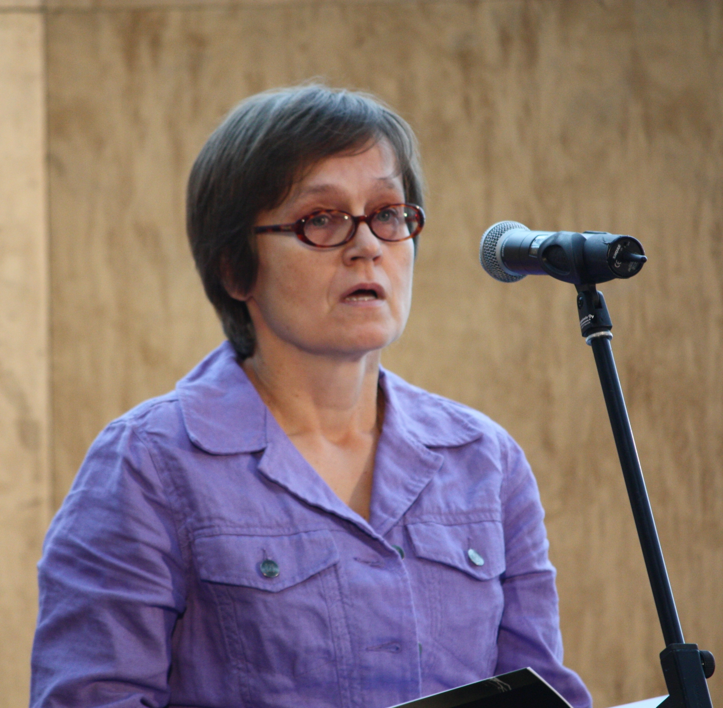 Finnish poet and author Helena Sinervo was reading her poems on The Day of Aleksis Kivi and Finnish Literature at Mediatori in Helsinki.